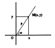 Coordinate system